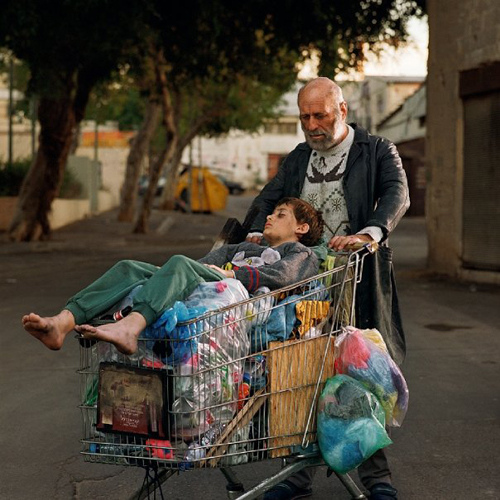 Photograph